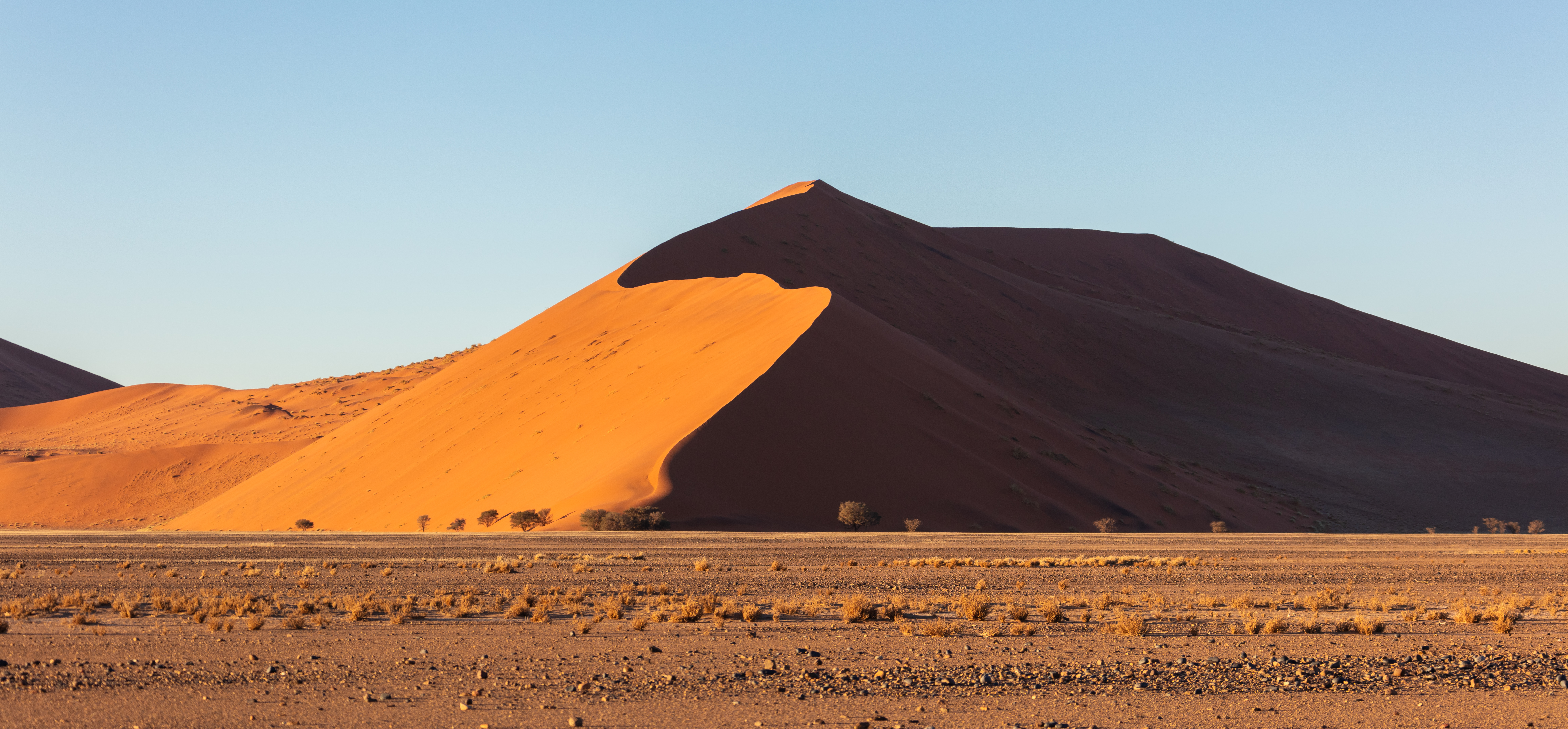 Dune in Sossusvlei, Namibia